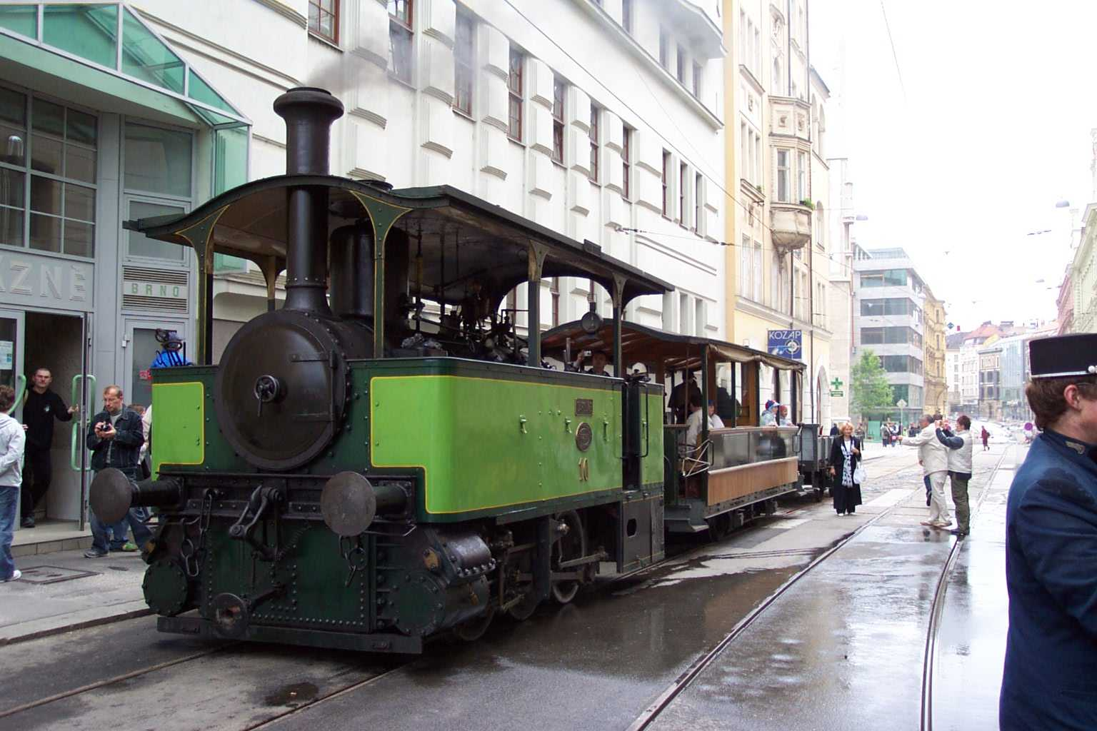 Historical steam tram in Brno, South Moravian Region, CZhelp